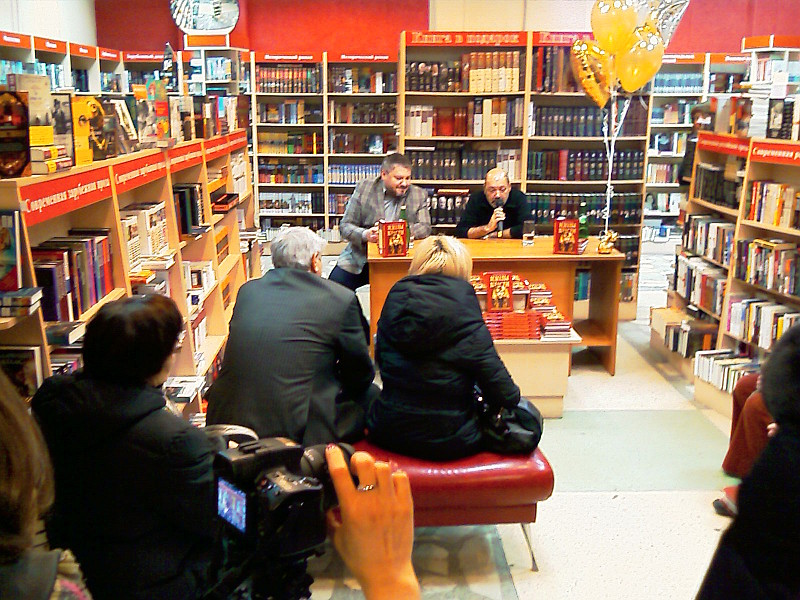 Monarchist Party leader Anton Bakov and writer Andrey Matveev present their book "Idols of power: from Cheops to Putin" in Ekaterinburg